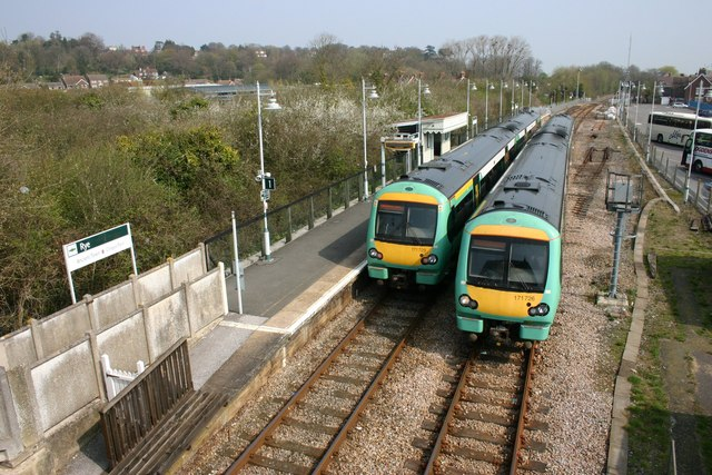 Southern Diesel Trains serve Rye Station